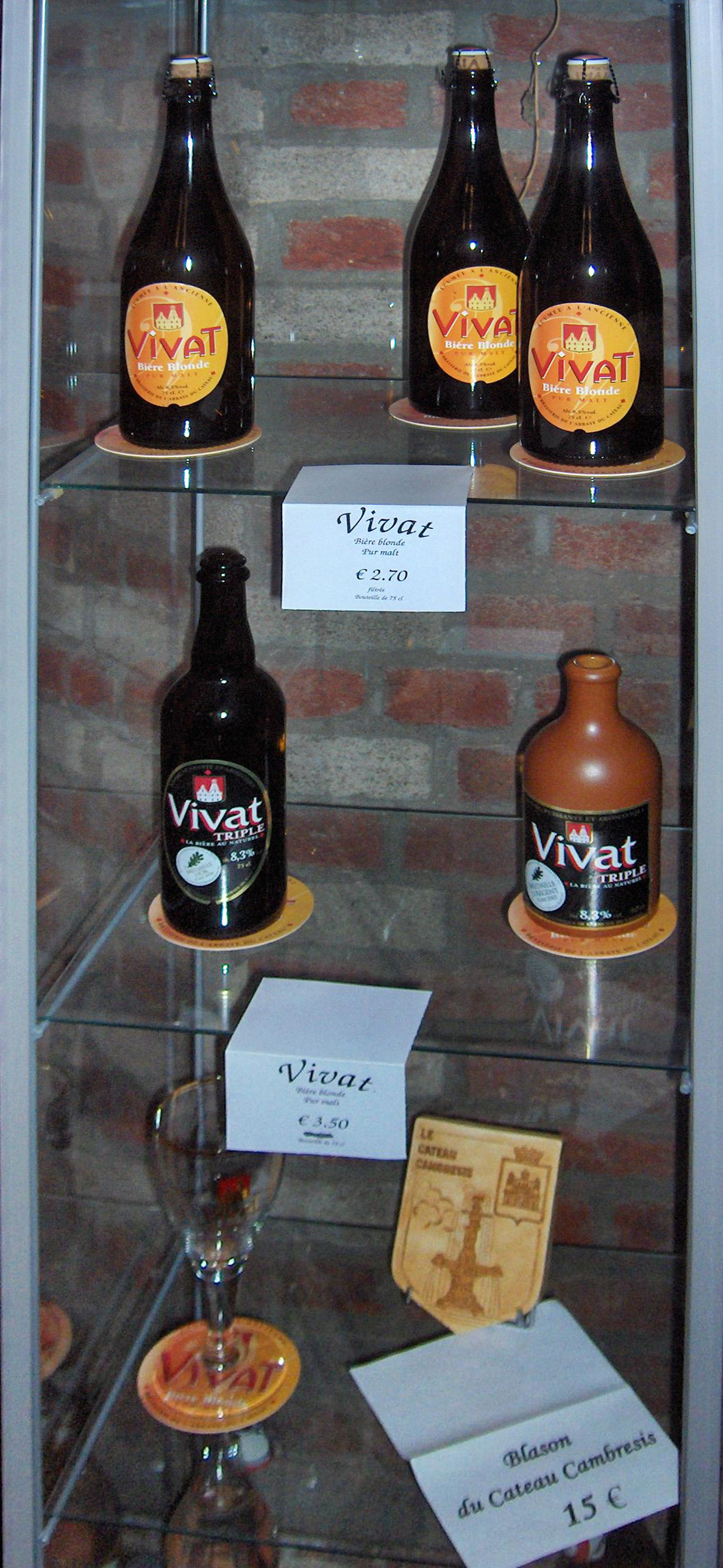 Vivat beer of Le Cateau Cambrésis, France